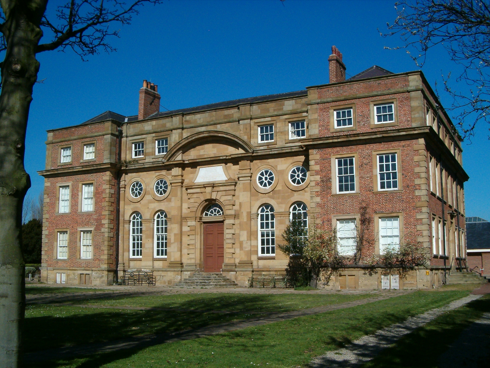 The Kirkleatham Free School of 1709, now Kirkleatham Old Hall Museum, as seen in the village of that name in the borough of Redcar and Cleveland, in the North East of England. Taken by Gavin Lenaghan on 5 April 2007.